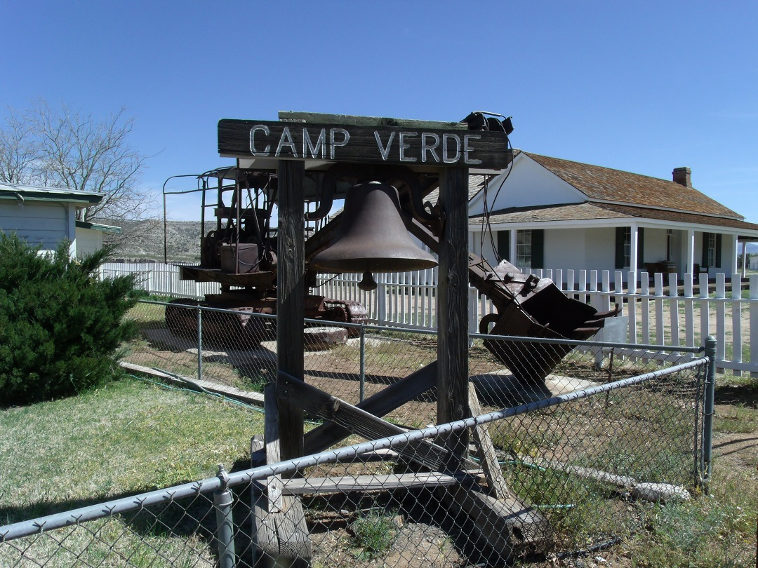 The Old Camp Verde Bell is located on the grounds of the historic 1916 George Hance House. The Bell is located at 229 Coppinger Street, Camp Verde, Arizona. It is located in the Fort Verde District, which was added to the National Register of historic Places in 1971, reference #71000120.